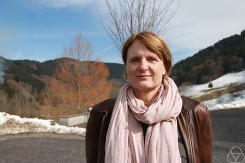 Tinne Hoff Kjeldsen, Oberwolfach 2013